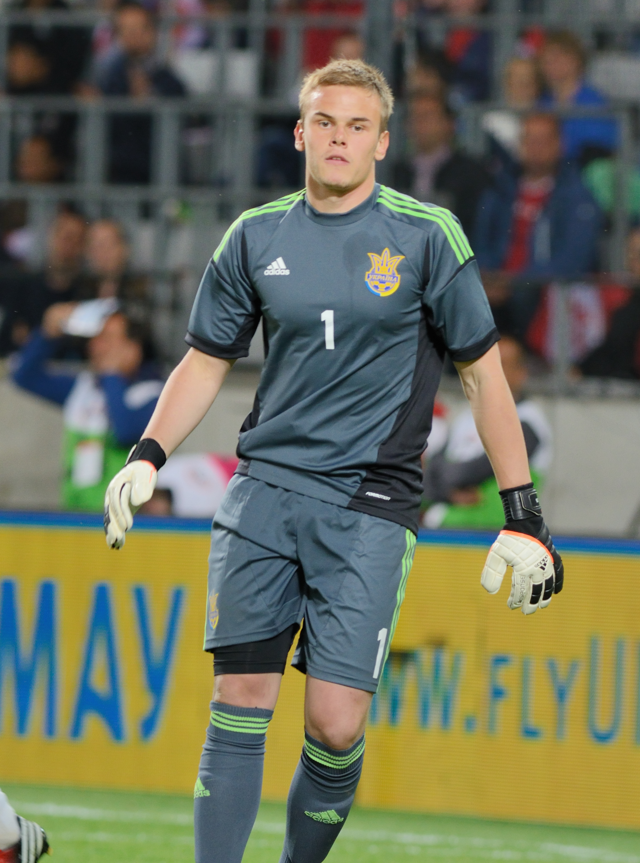 Exhibition game Austria vs. Ukraine at 1st. June 2012